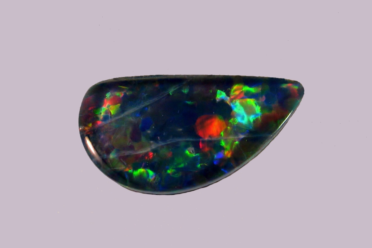 Black Precious-Opal